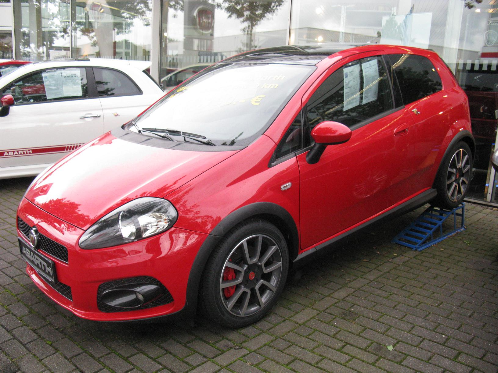 Fiat Punto Abarth